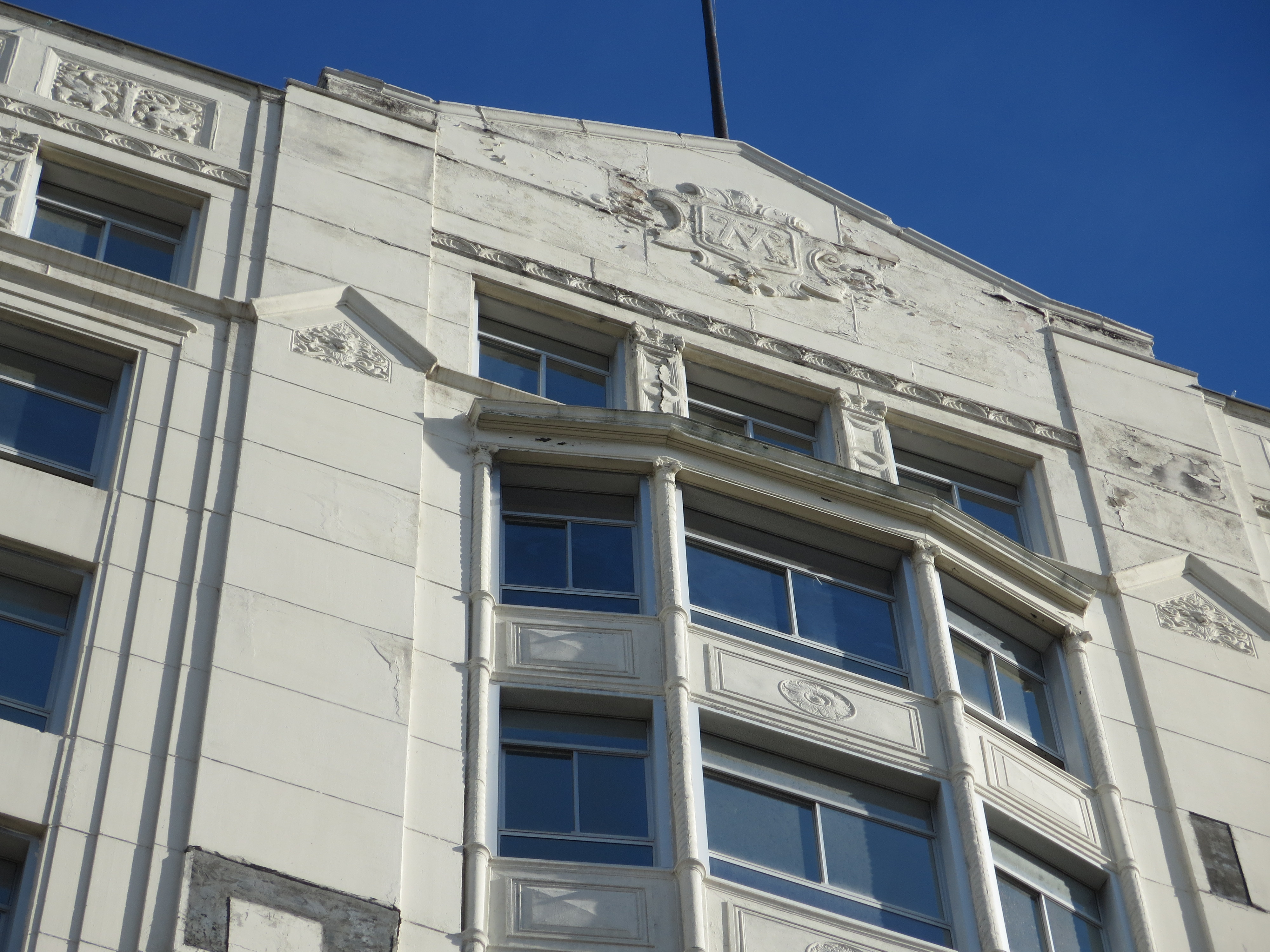 Looking up at an "M" emblem on a parapet above the tenth floor of the Montgomery Building in downtown Spartanburg in 2013.